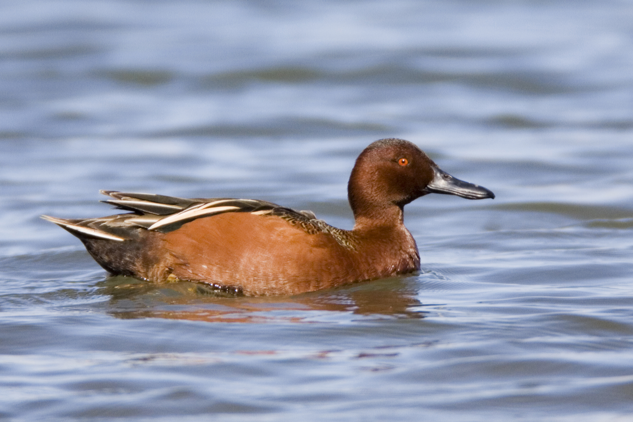 Cinnamon Teal - mating sequence , Los Osos (Cuesta by the Sea Inlet), Morro Bay, CA. March 29, 2007. Shot with a Canon 5D with 600mm IS lens with 1.4X II TE, extension tube, no polarizer, Wimberley head, and Gitzo tripod, shot in RAW, sharpened in Photoshop CS2. Photo by Mike Baird 30mar2007 30march2007